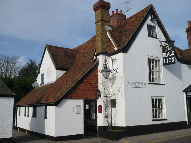 The Black Lion pub, Lynsted Lane A plaque on the wall says that "In the argot of Wellington's Peninsular veterans this was the name given to the worst form of Pox, perhaps so called after a pothouse of ill repute".